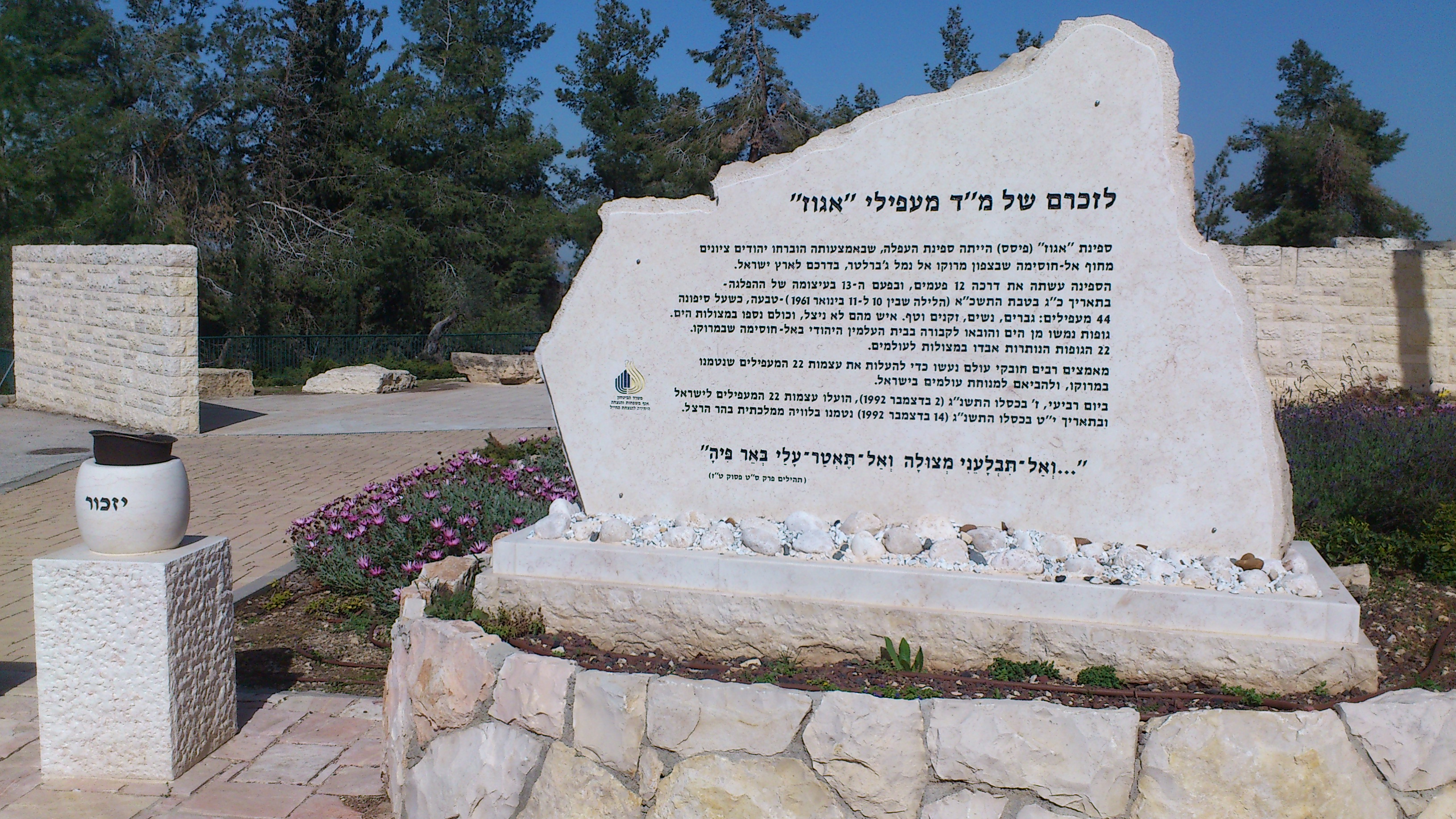 Common Grave for the illegal immigrants aboard Egoz